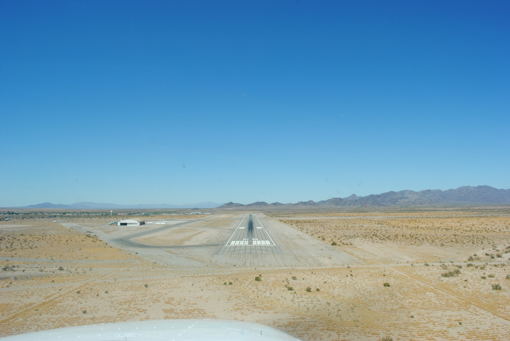 Final approach into Blythe Municipal Airport.